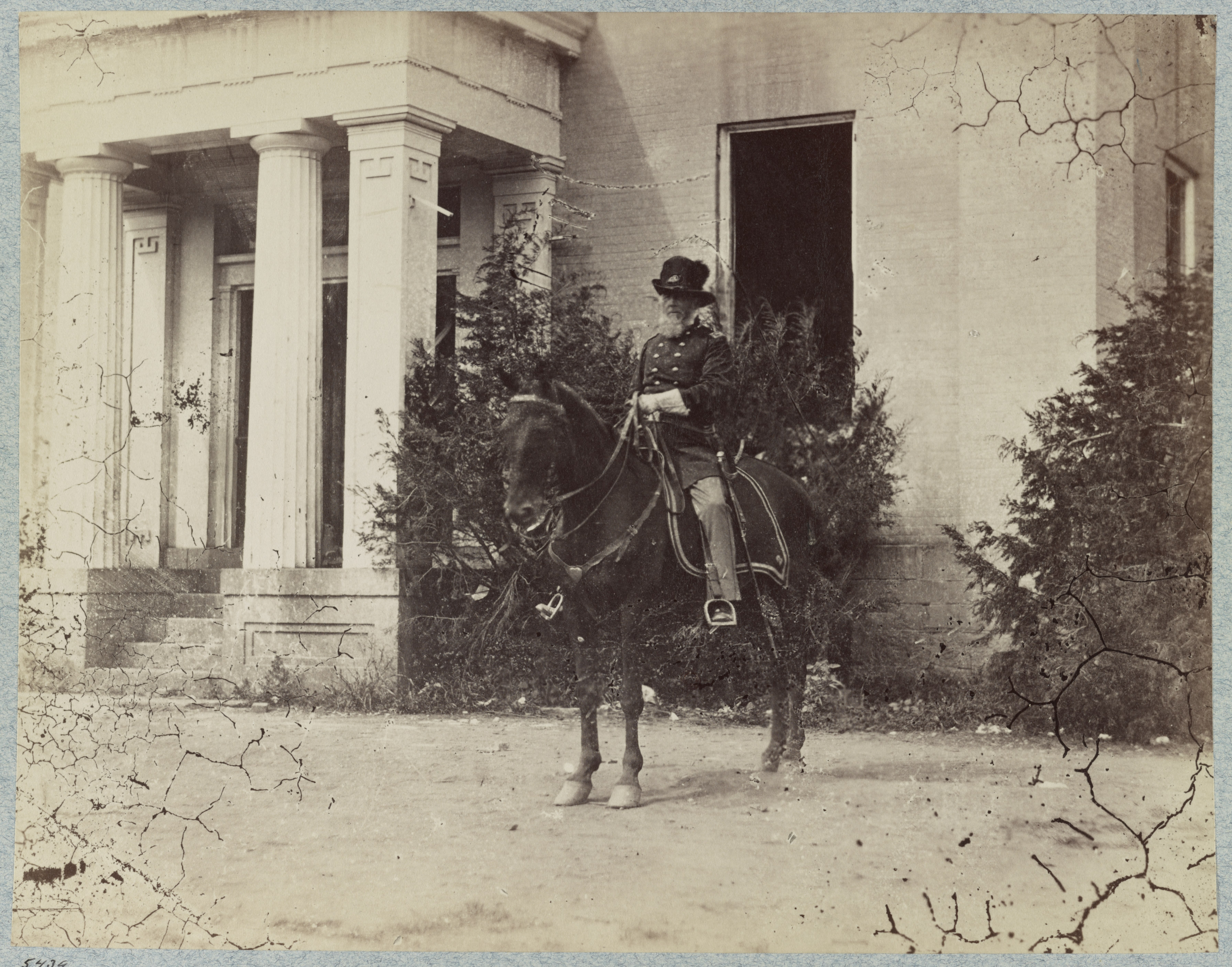 Title: Col. Dixon S. Miles at Harper's Ferry, W. Va Physical description: 1 photographic print on card mount : albumen. Notes: Title from item.; Gift; Col. Godwin Ordway; 1948.; No. 5439.